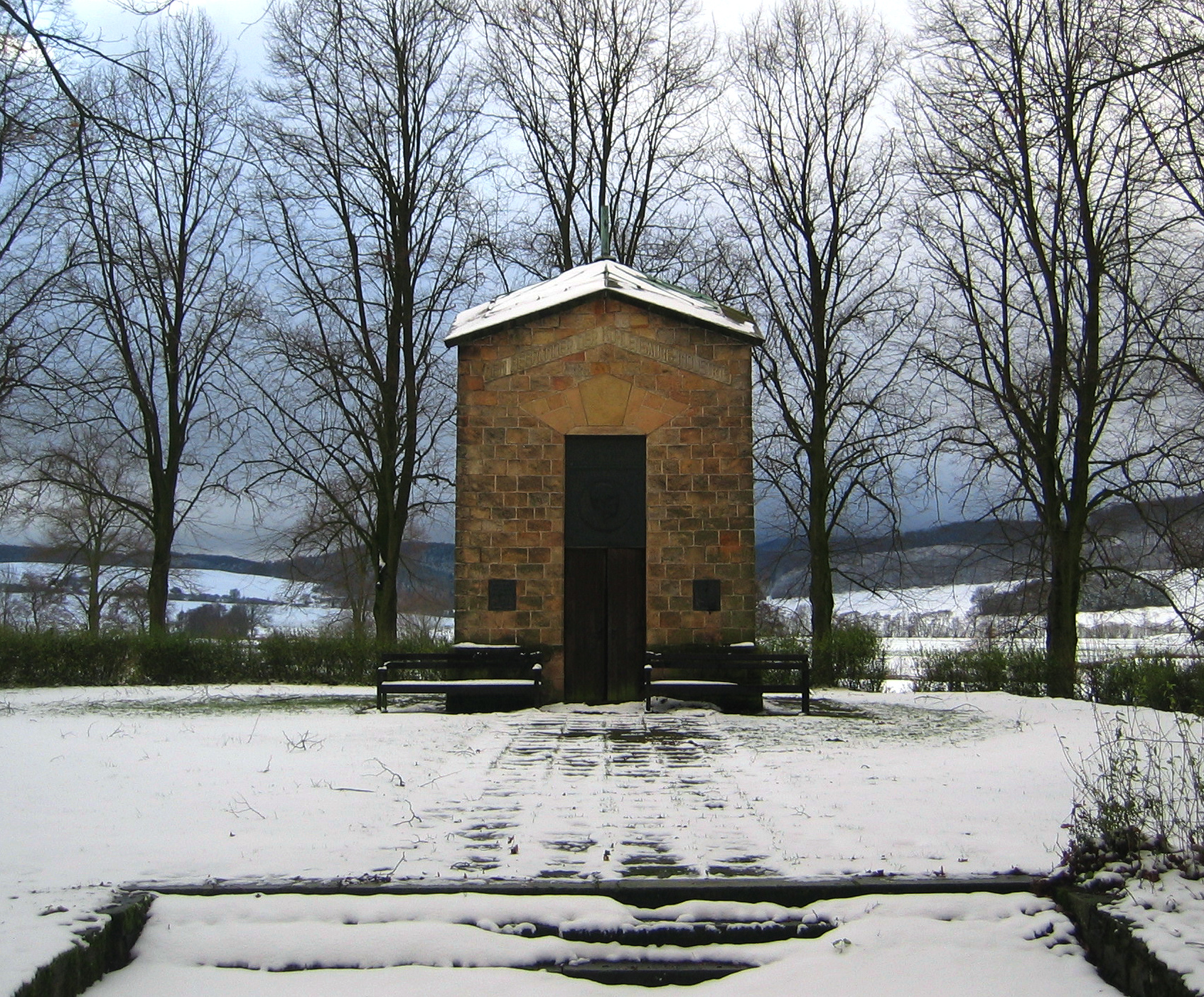 Well house of Rommenhöller Memorial in Bad Driburg, District of Höxter, North Rhine-Westphalia, Germany.